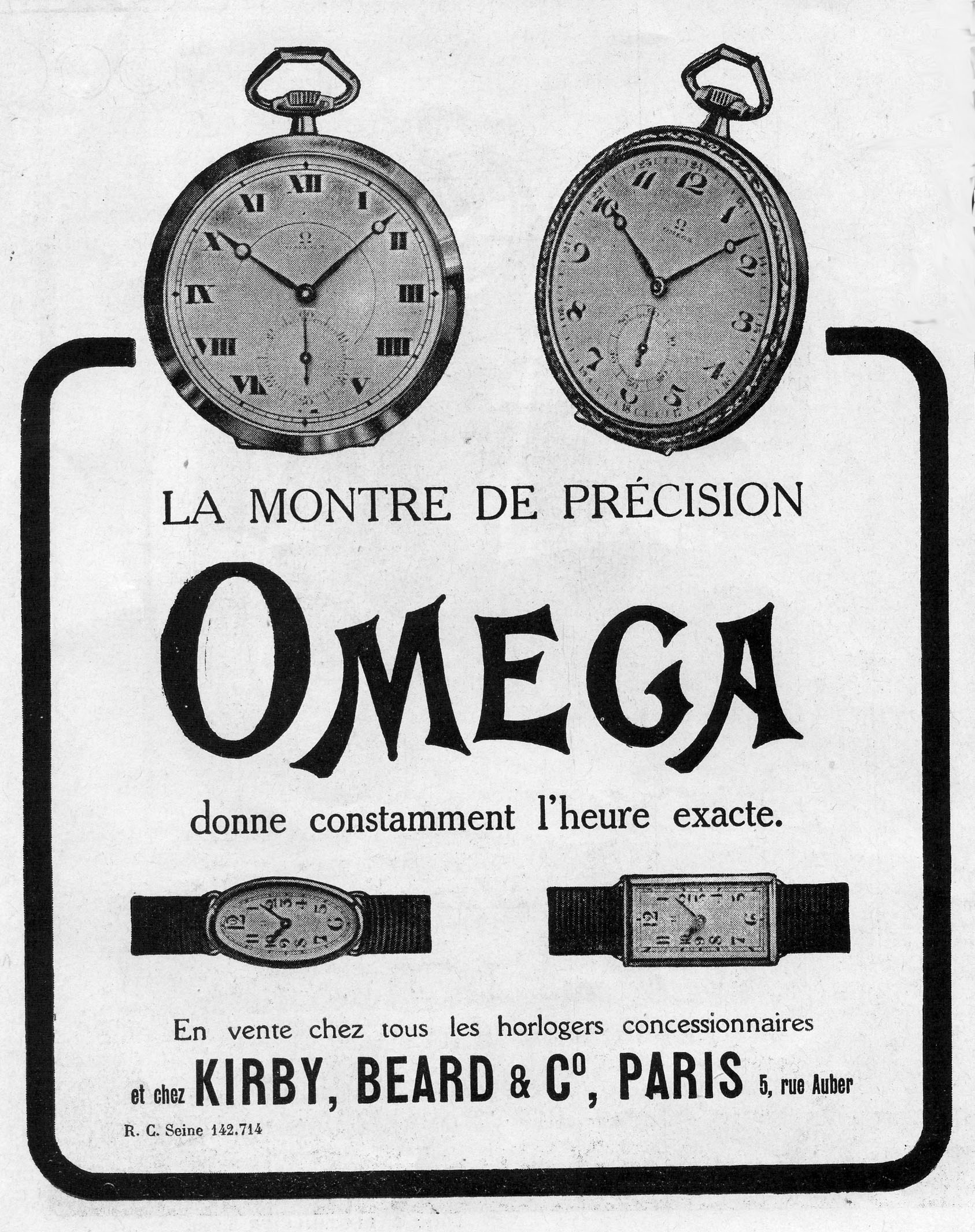 OMEGA watches : advertisement of 1923